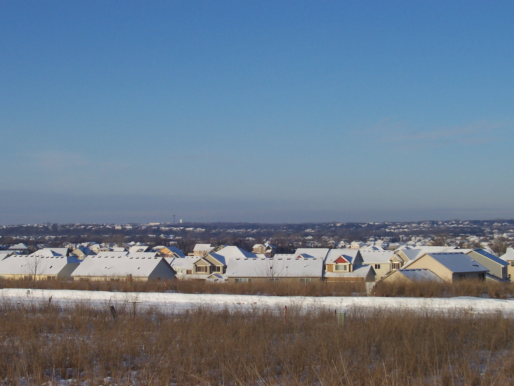 A field and a skyline of residential homes during winter in Woodbury, Minnesota.